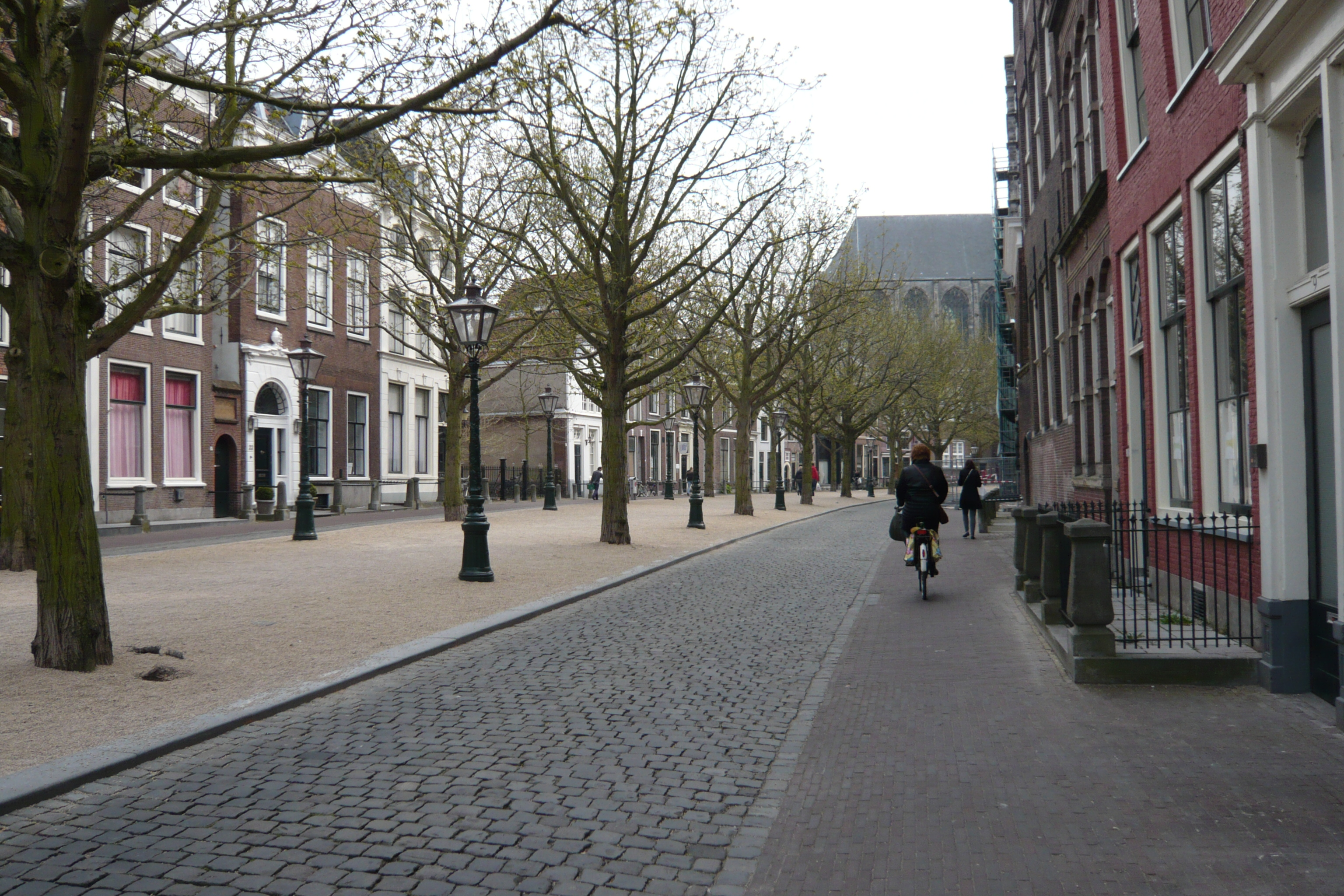 Hooglandse Kerkgracht towards the Hooglandse Kerk in Leiden